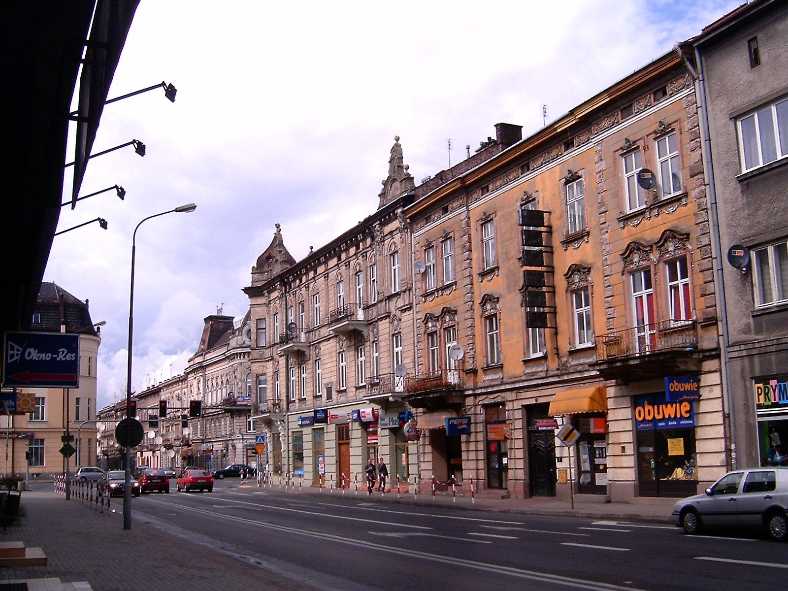 Jarosław,Słowackiego street